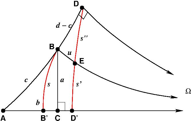 Horocircles used for hyperbolic trigonometry.